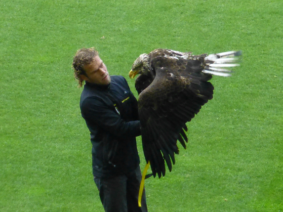 Gerard van den Brink with Hertog II in GelreDome prior to the football match Vitesse vs. FC Twente